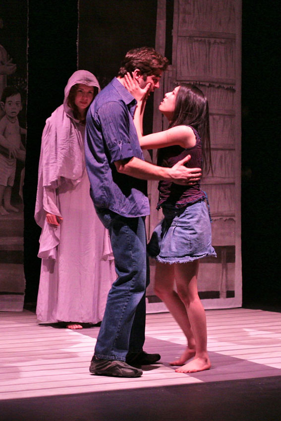 Jason and Number 18 embrace in the Canadian play She Has a Name